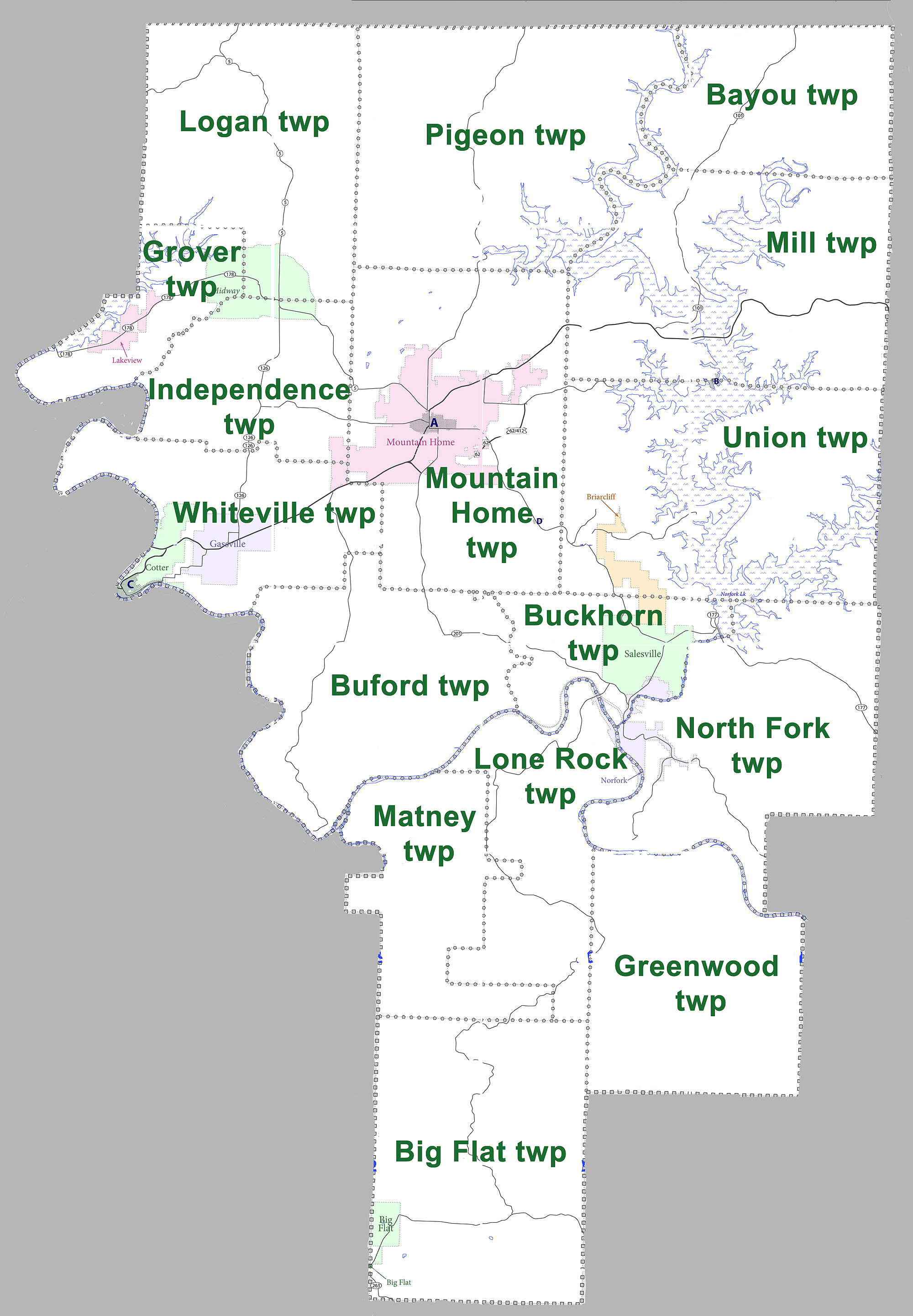 Large map showing townships in Baxter County, Arkansas. Modified from US census map (for 2010 census) for Baxter County, Arkansas